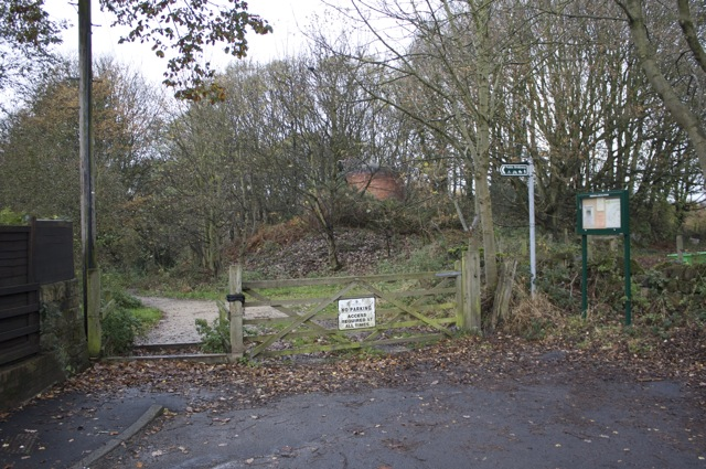 Entrance to Buck Wood at Thackley Road. The sign indicates the bridleway through the wood starts here, but is not shown on the OS maps. The horse 'gate ' on the left is similar to that at the other end of the route, then shown as a Permissive Bridleway, see my photograph 1568015. The information board was erected by 'The Friends of Buck Wood'.